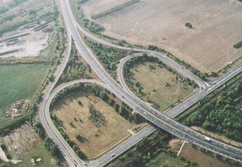 M0, ring-road, Nagytétény, Hungary, aerialphotography